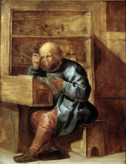 Portrait of the lexographer Cornelis Kiliaan in his workshop